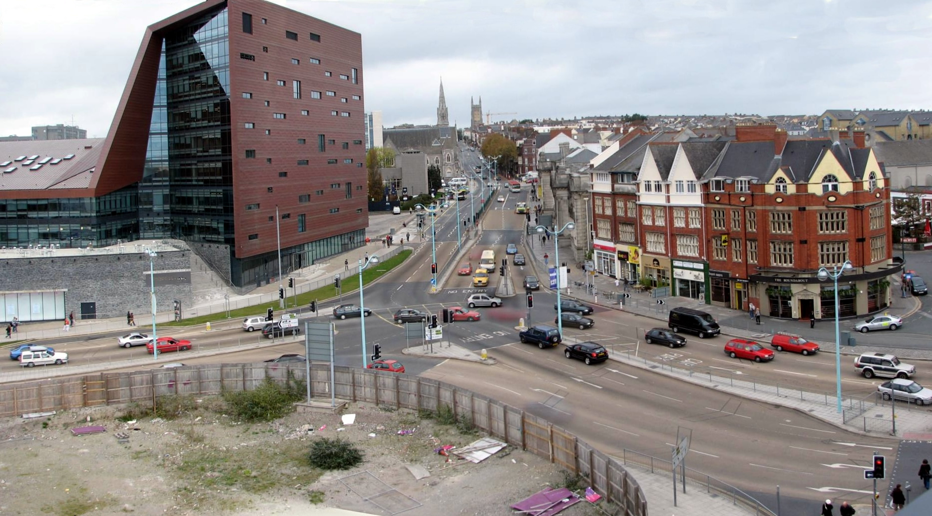 Drake Circus, Plymouth, England from the roof of the Drake Circus Shopping Centre. Roland Levinsky Building of the University of Plymouth on the left.